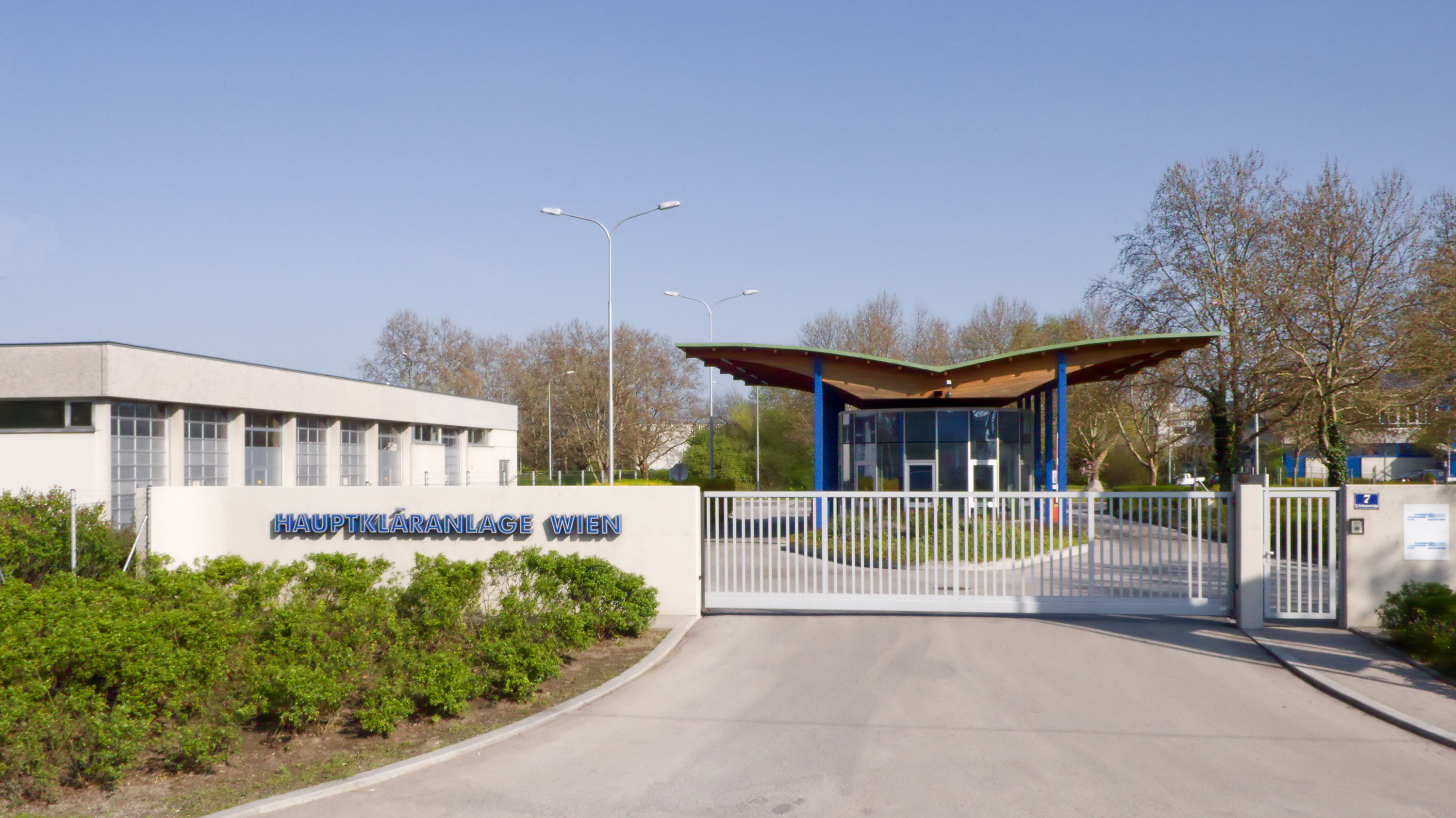 Sewage treatment plant Hauptkläranlage Wien in Vienna Simmering